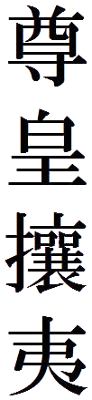 Sonno Joi.